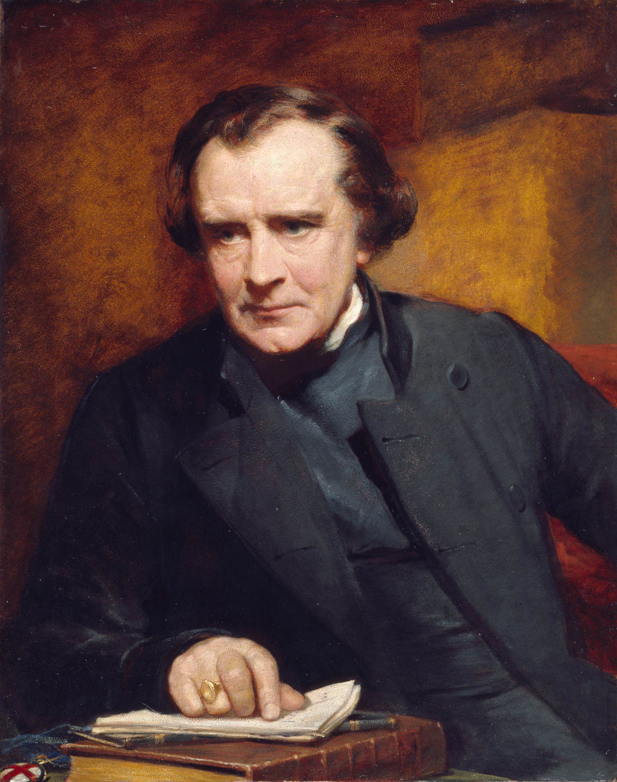 Portrait of Samuel Wilberforce (1805–1873), Bishop of Oxford. Courtesy of the collections of the Royal Academy of Arts.